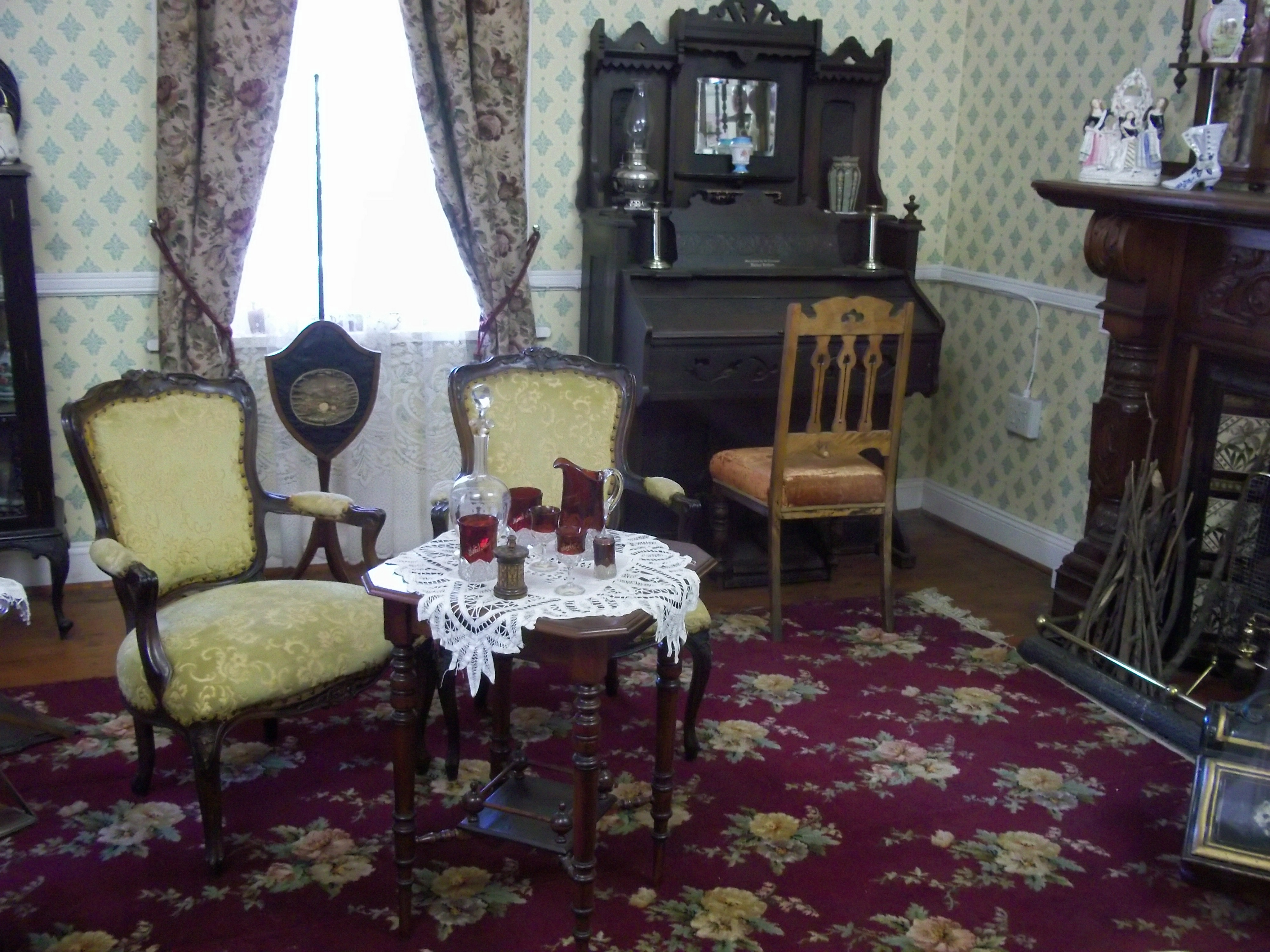 Early 20th century house at Gold Reef City in which the mining staff was lodged.